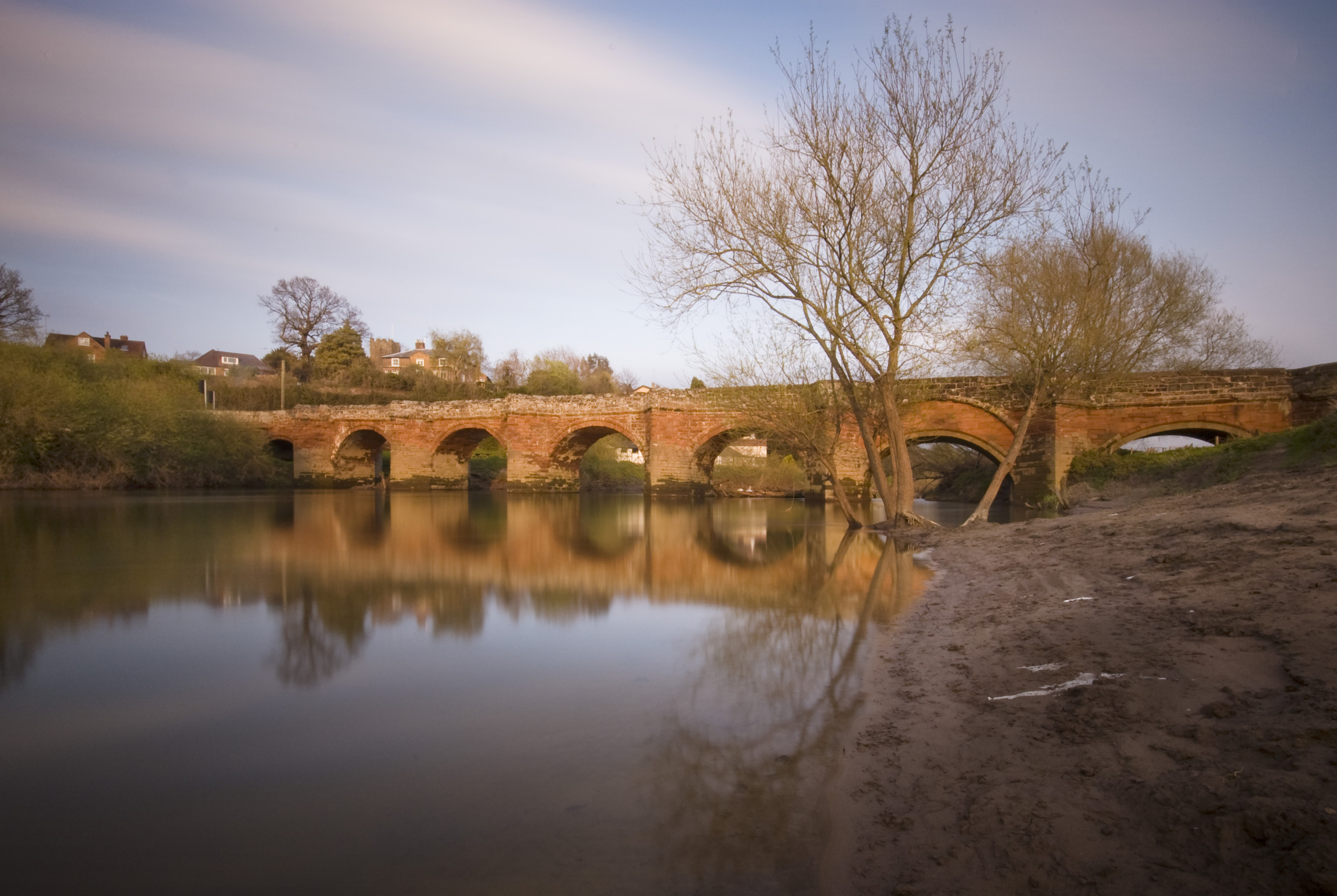 Farndon Bridge at Farndon, seen from the west